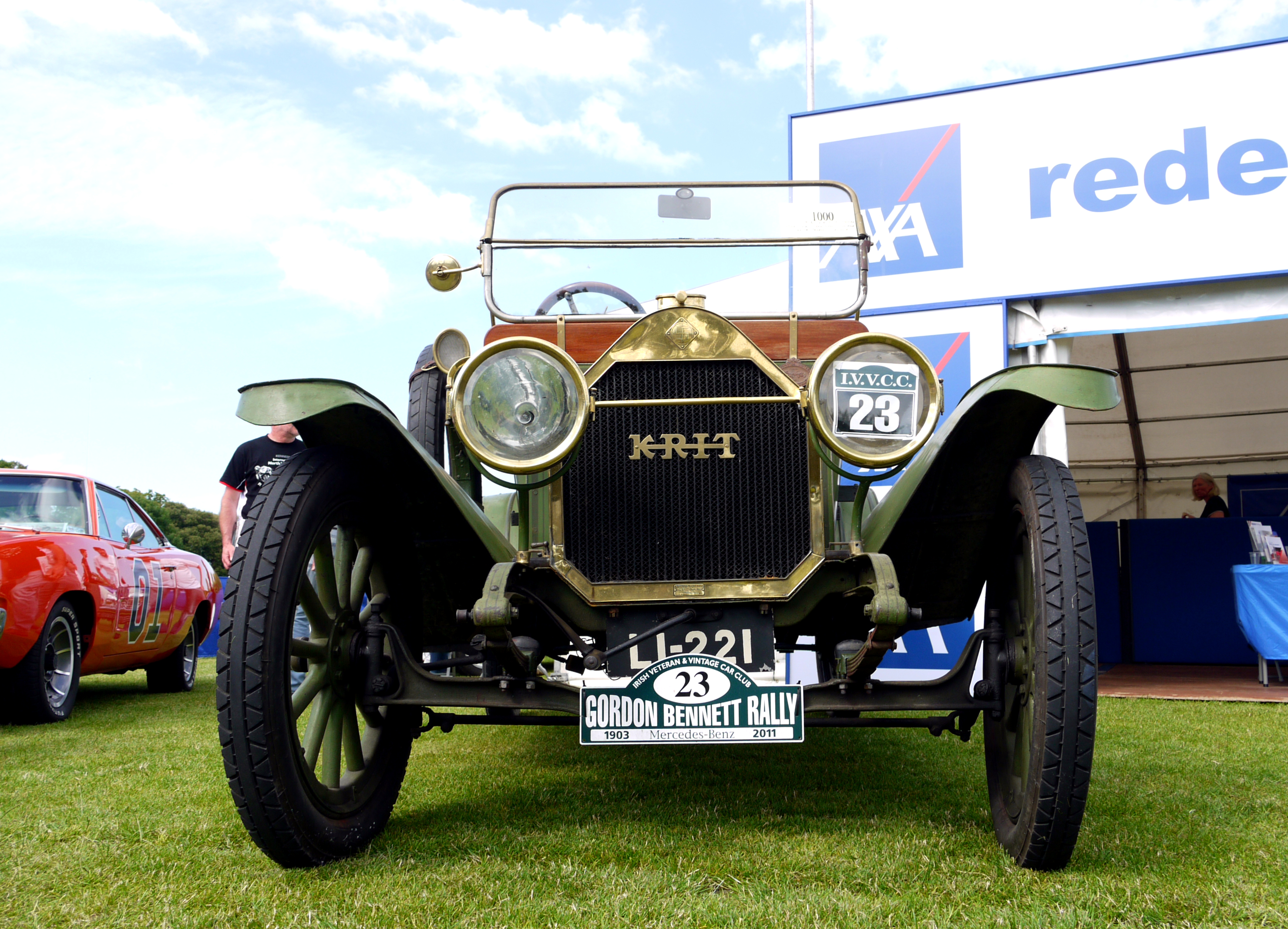 1913 K-R-I-T "KT" K Tourer 25hp. K-R-I-T Motor Car Company was a small automobile manufacturing company (1909-1916) based in Detroit, Michigan. Its name probably originated from Kenneth Crittenden who provided financial backing and helped design the cars. The emblem of the cars was a swastika. The outbreak of World War I seriously damaged the company and it failed in 1915.